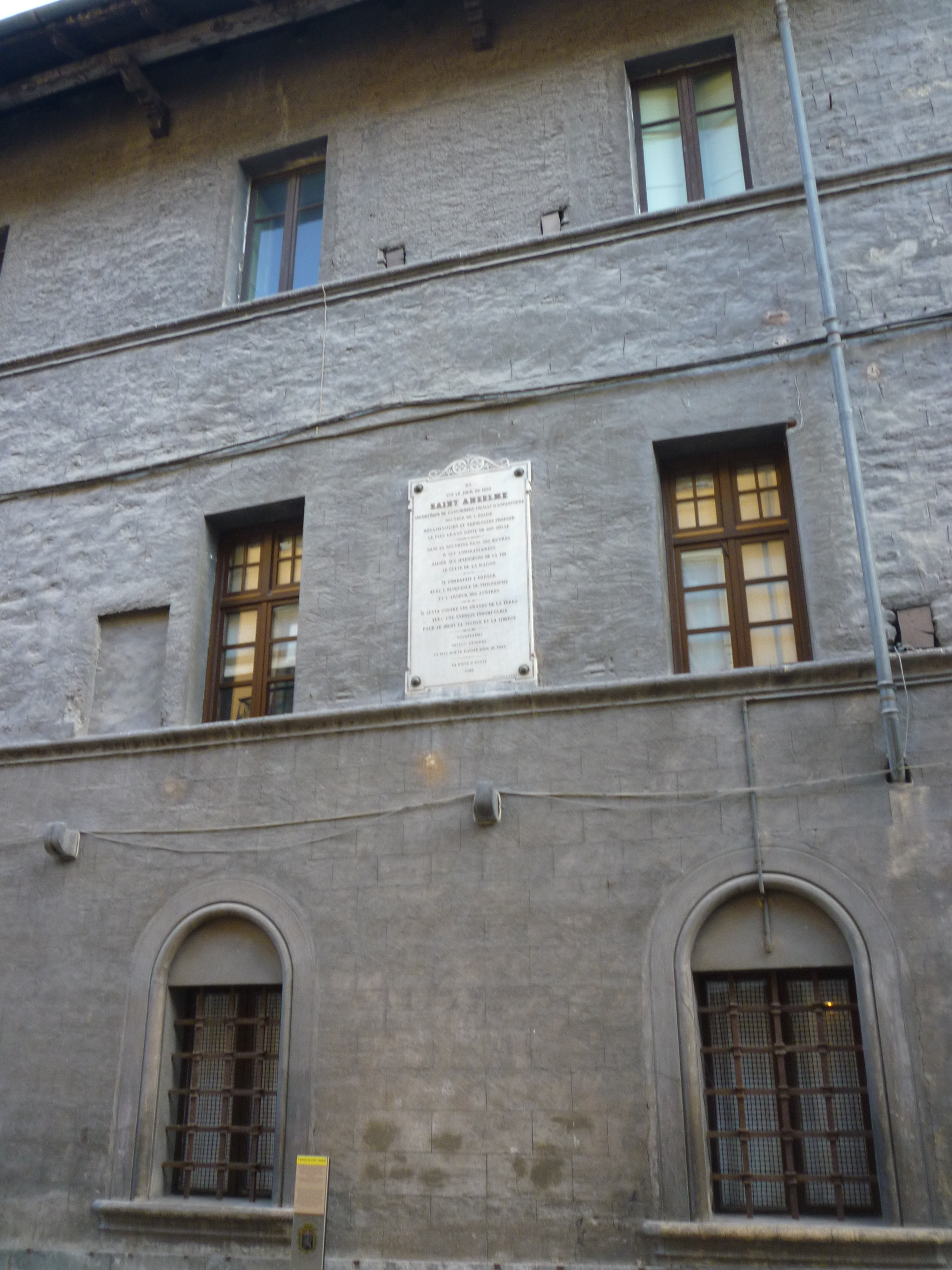 Saint Anselme's house in Aosta (Aosta Valley, Italy)